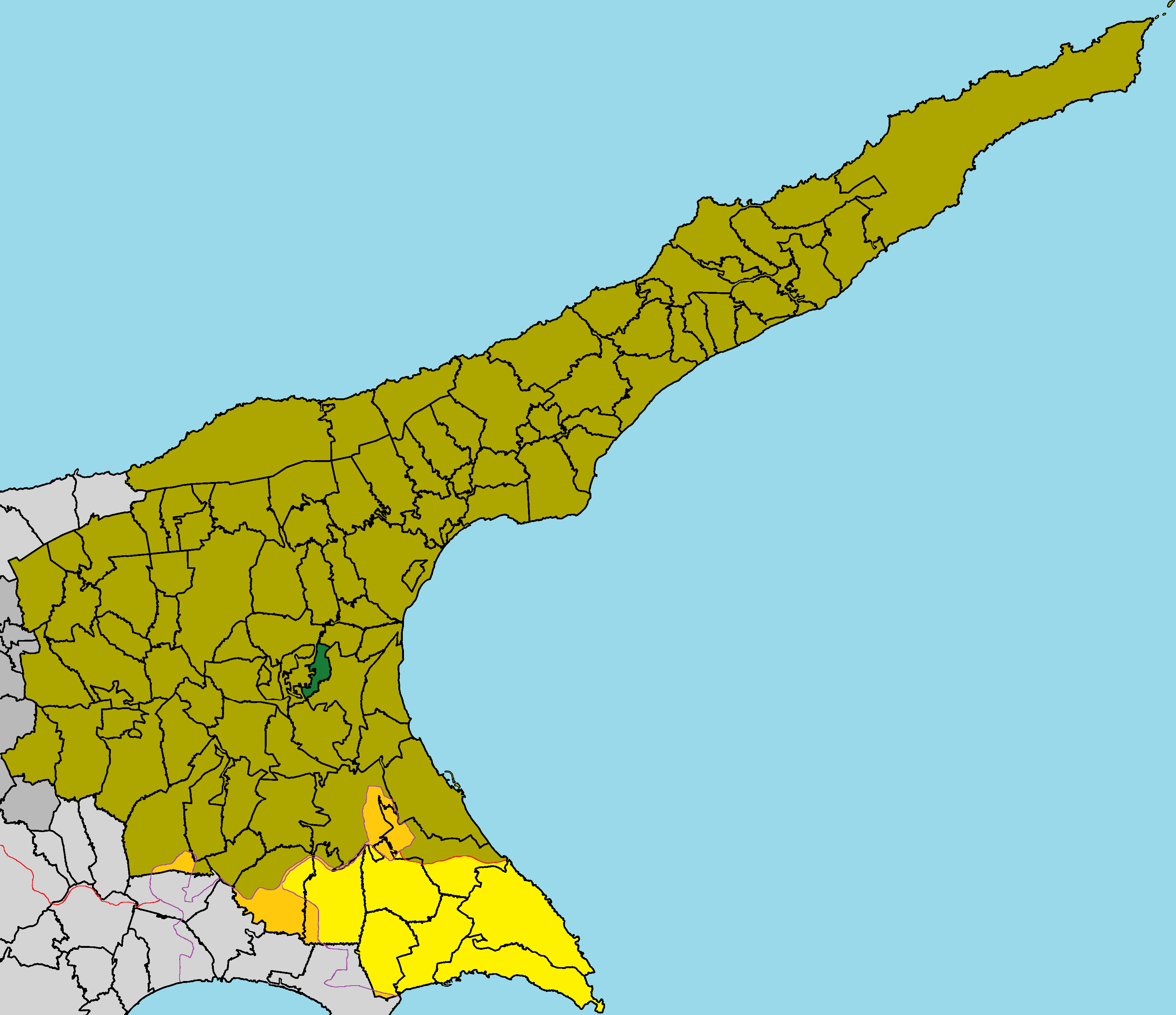 Aloda in Famagusta District (de jure).